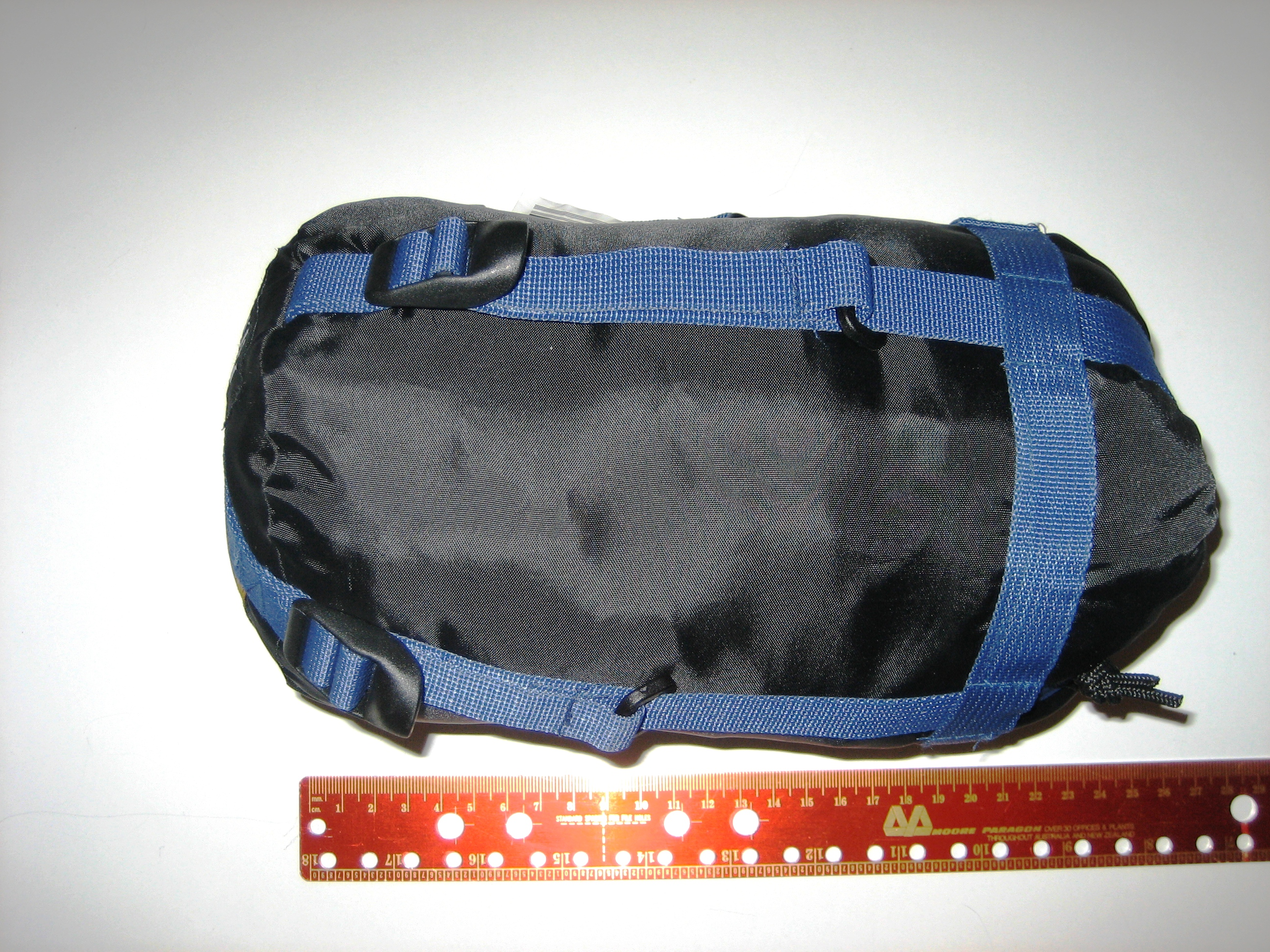 A photo of a highly compact sleeping bag next to a ruler for scale. The unpacked bag measures 210 cm x 65 cm and is a "mummy bag" (tapered at the ends). The packed bag is 23 cm long and has a diameter of 12 cm.